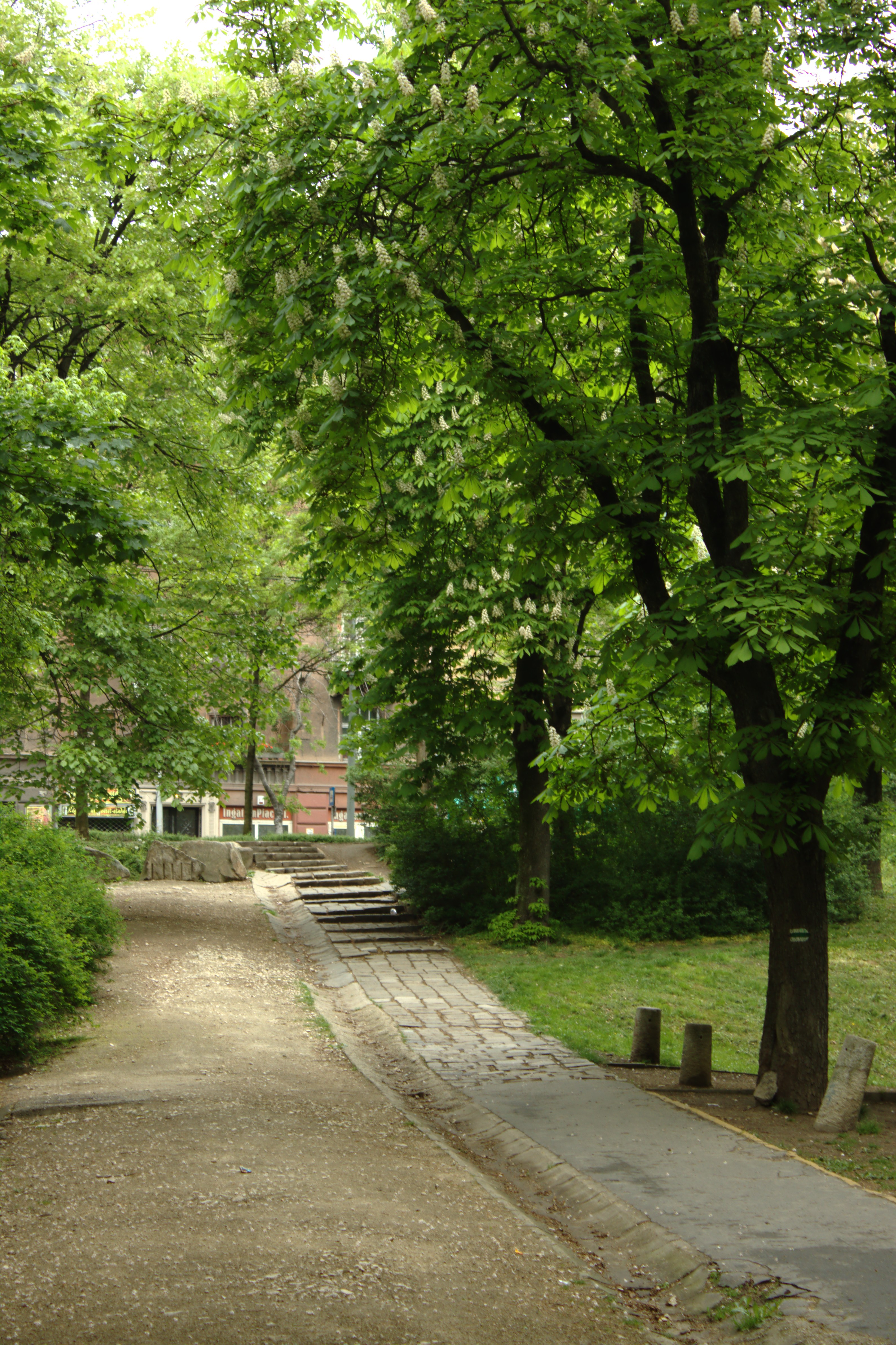 Városmajor park near Budapest, close to Moszkva tér square, Hungary